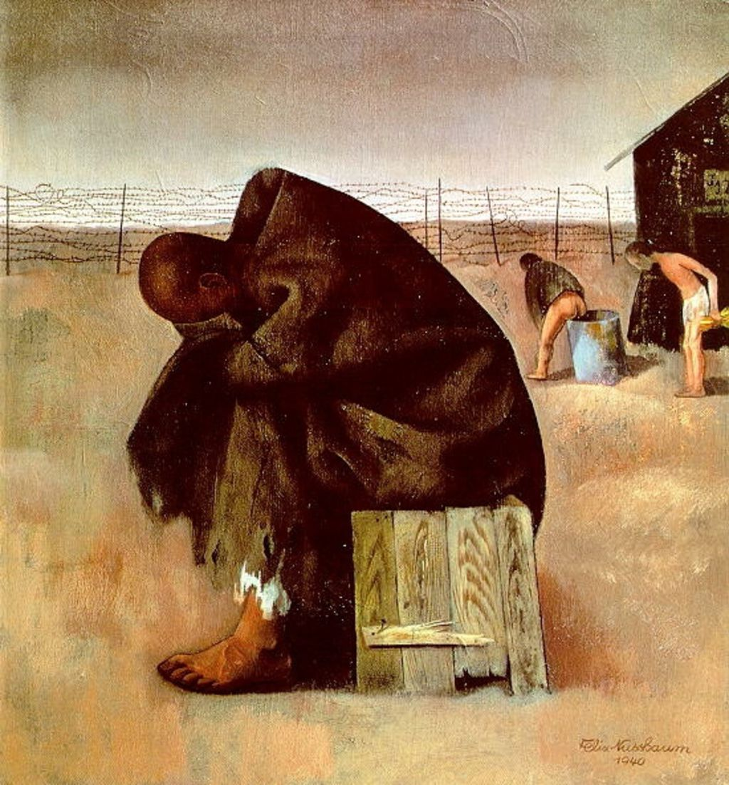 In the camp. 1940 painting by Felix Nussbaum, based on his emprisonment in the Saint-Cyprien camp.